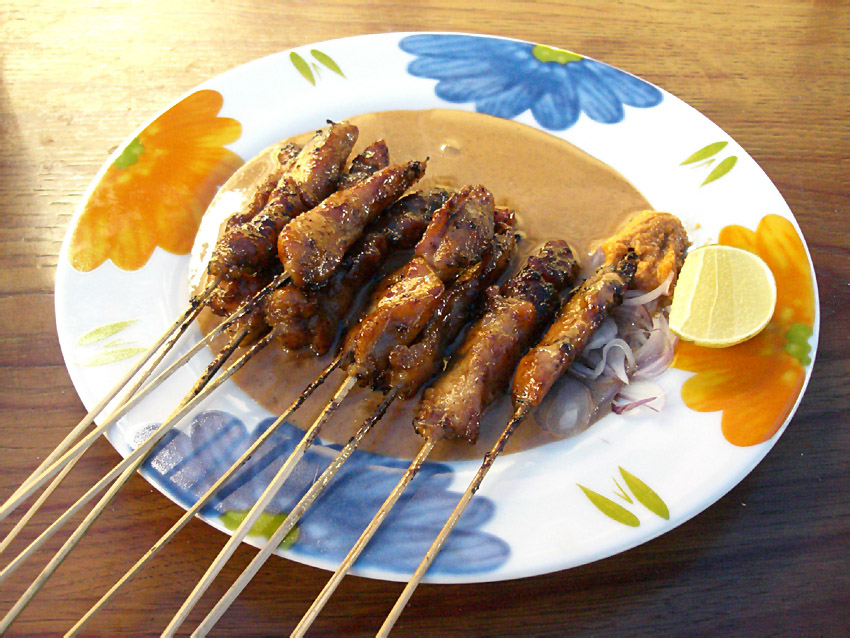 Jalan Urip Sumoharjo Foodstall, Surabaya, Indonesia. A dish consist of 10 skewers Sate Ponorogo, a variant of Satay specialty from Ponorogo, a town in East Java, Indonesia.